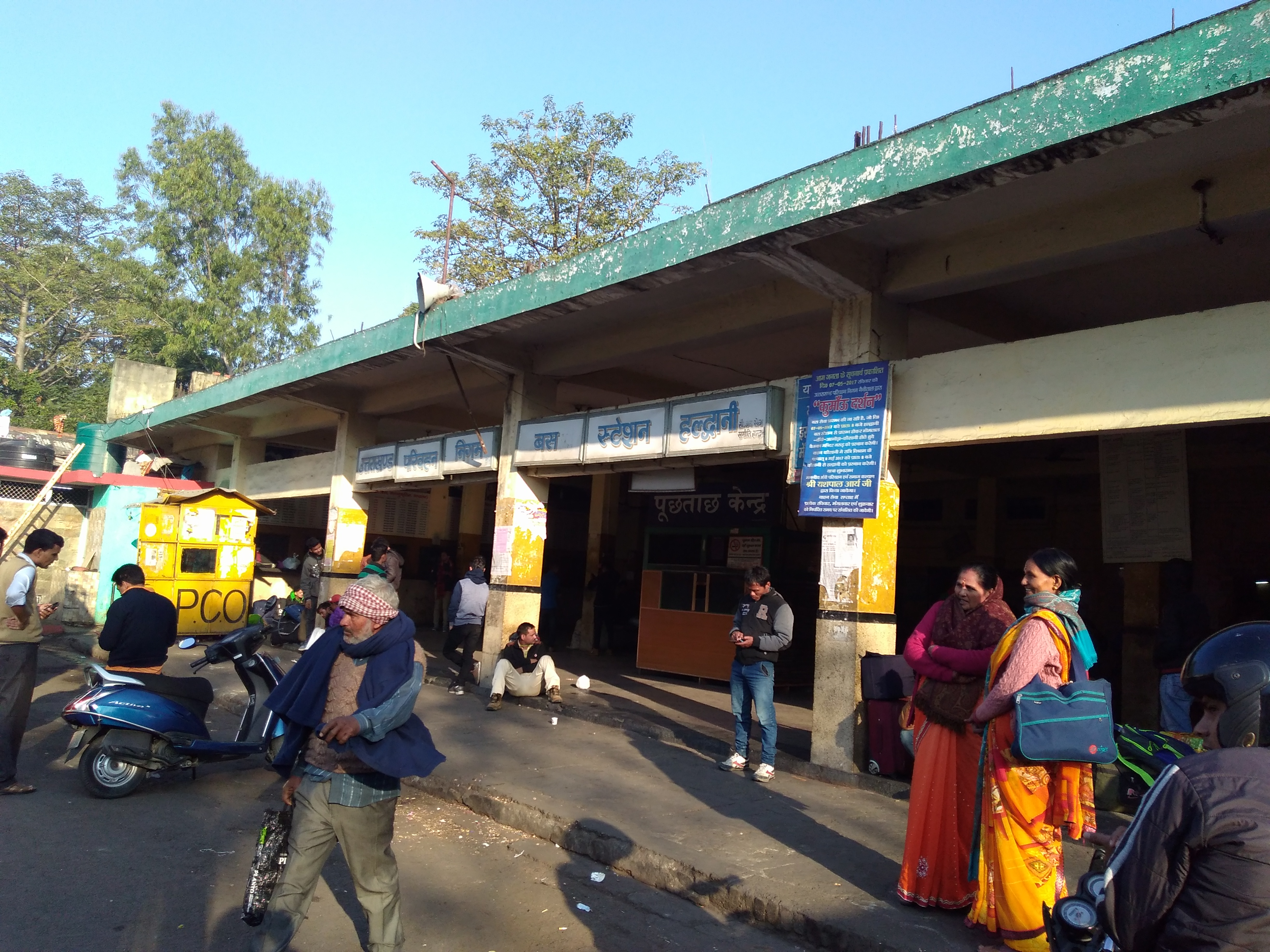 Roadways Bus Station, Hadwani